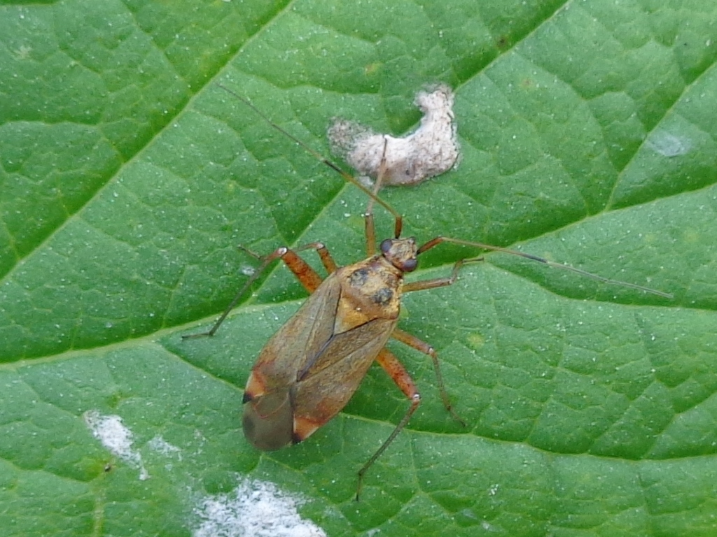 Closterotomus fulvomaculatus on Ribes nigrum. Found in Bērzi village near Bauska city, Latvia.